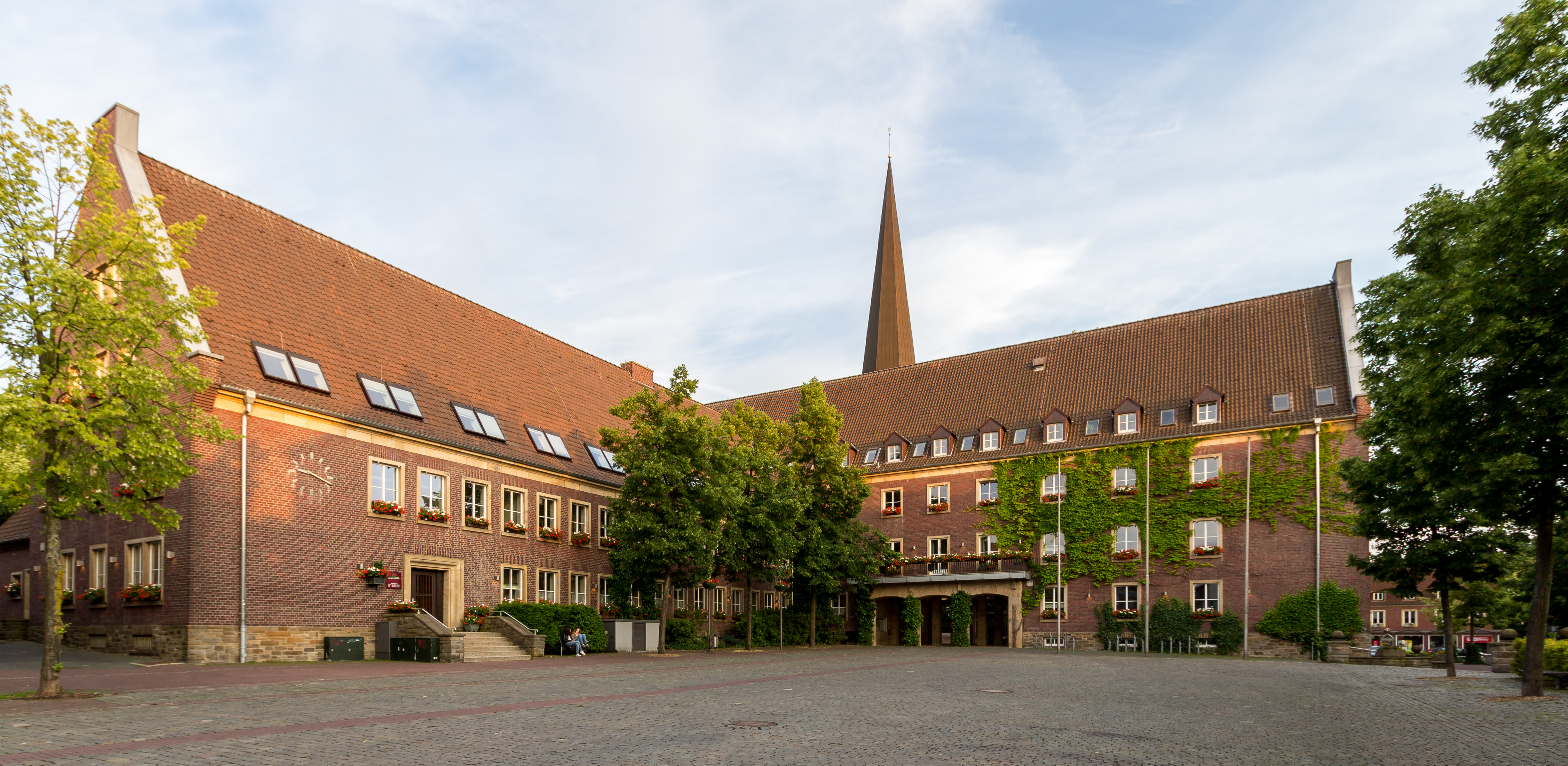 Town hall, Dülmen, North Rhine-Westphalia, Germany This image shows a heritage building in Germany, located in the North Rhine-Westphalian city Dülmen (no. 126).